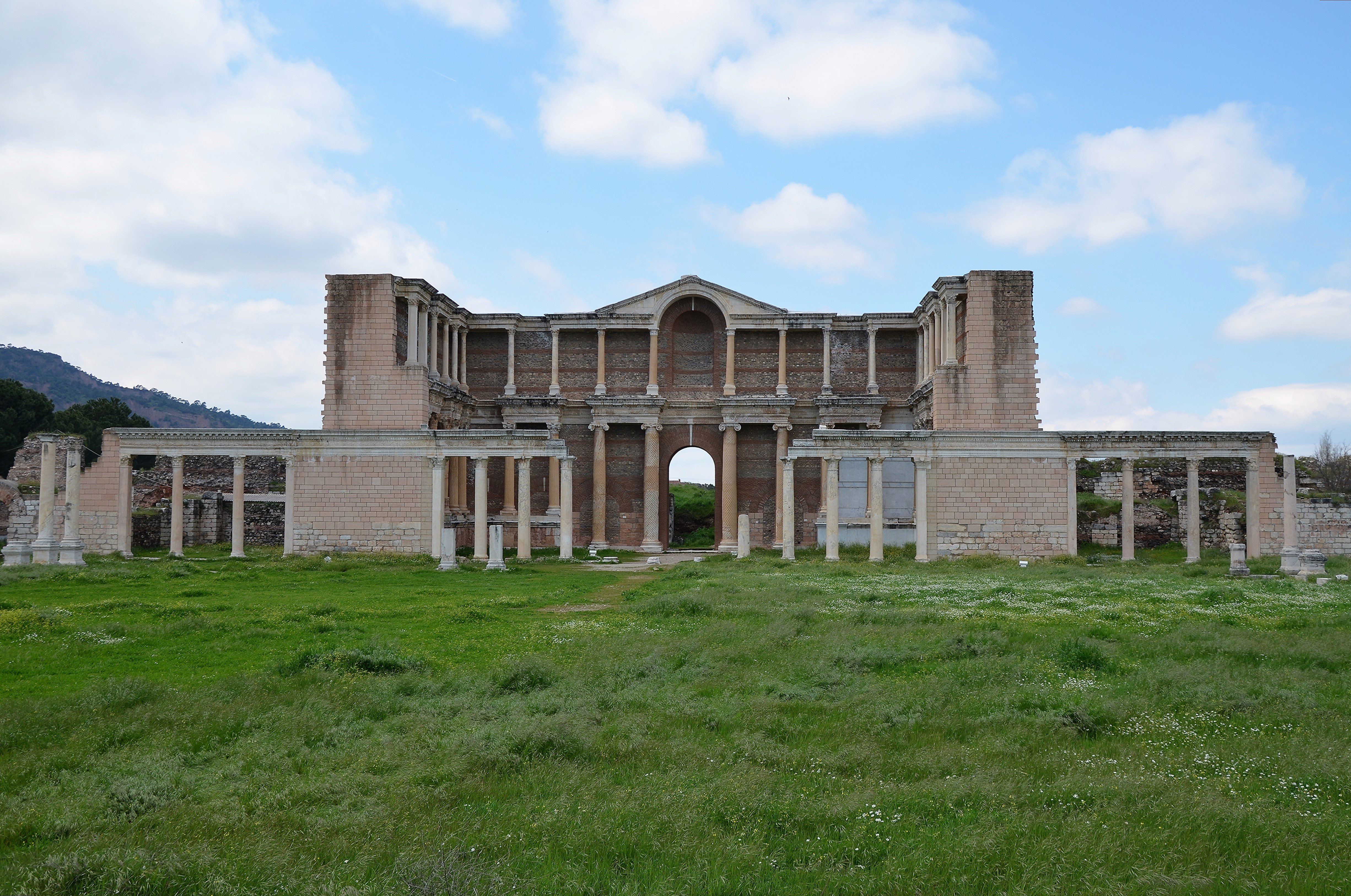 The Bath-Gymnasium complex at Sardis, late 2nd - early 3rd century AD, Sardis, Turkey